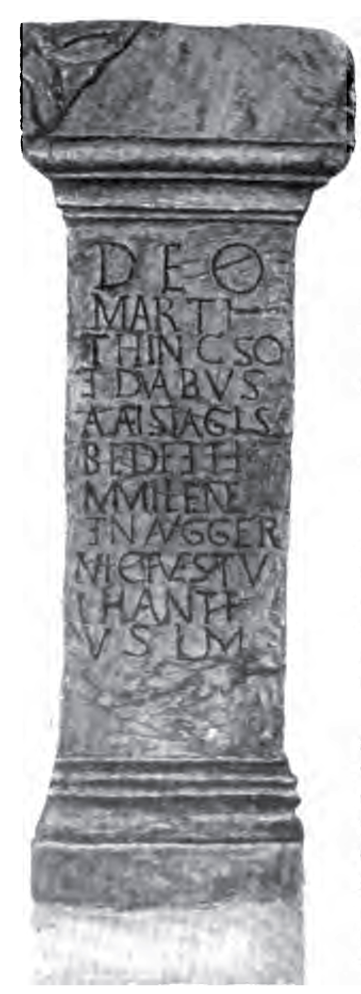 The description of the illustrations reads: "Altar dedicated to the deities Mars Thingsus, Beda and Fimmilena, by the German Tuihantian citizens (Front view.) [From Borcovicus] [No. 194]". The altar was found in the old Borcovicus [Vercovicium], now Housesteads, Northumberland, United Kingdom. Mars Thingsus is often interpreted as relating to or being the same figure as the West Germanic deity Ziu/Tiw, equal to the Norse deity Týr. Full description at (archive). For another Tuihanti-altar from Vercovicium, (archive).